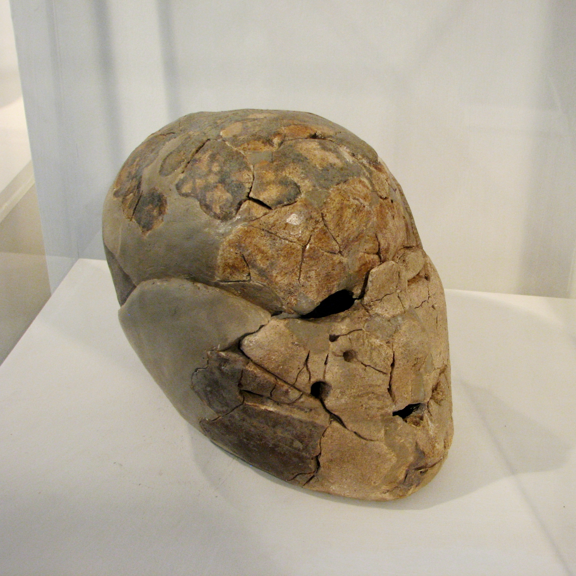 Moshe Stekelis Museum of Prehistory exhibition. Human skull covered with plaster from Beisamoun in Hula Valley. Pre-Pottery Neolithic B period. Replica